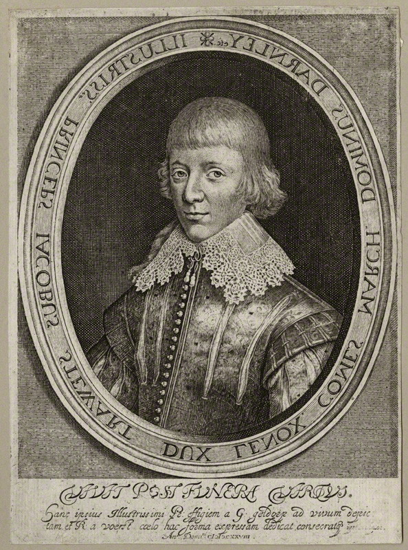 Line engraving of James Stuart, 1st Duke of Richmond by Robert van Voerst, after George Geldorp